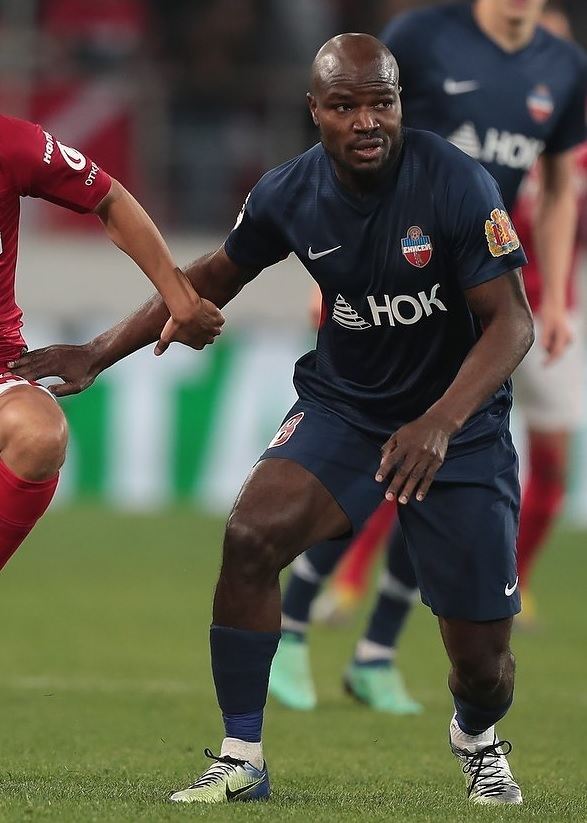 Fegor Ogude with FC Yenisey Krasnoyarsk in a game against FC Spartak Moscow.